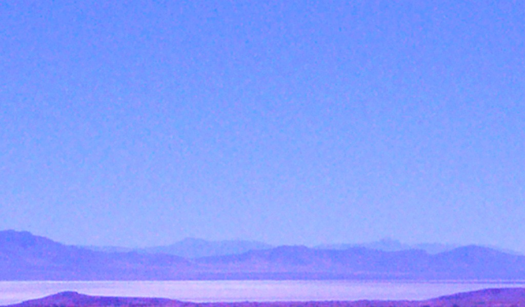 Sevier Dry Lake in west central Utah by David Jolley Fall 2007.